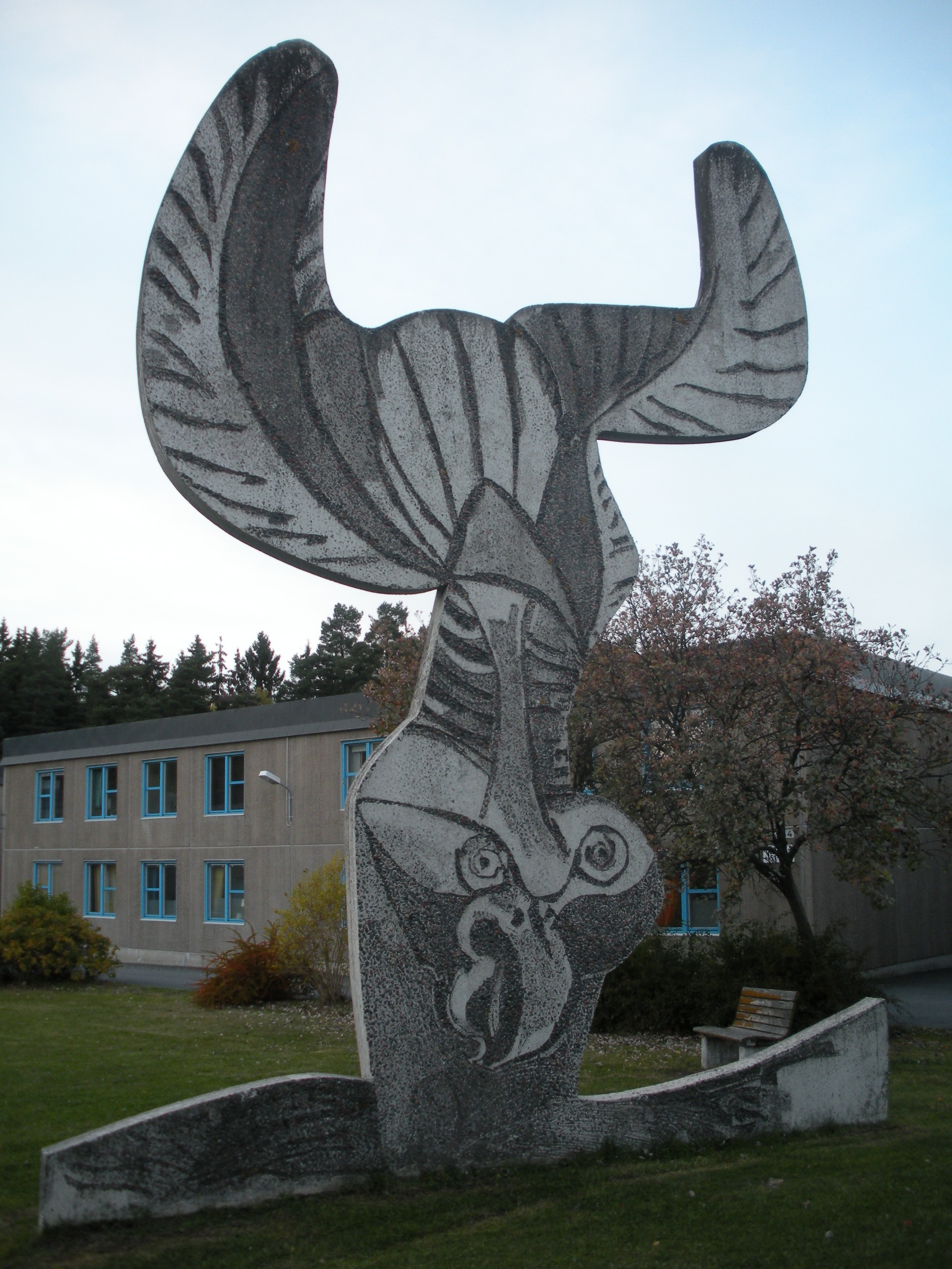 Diving seagull- Picasso's sculpute in Kungshamra